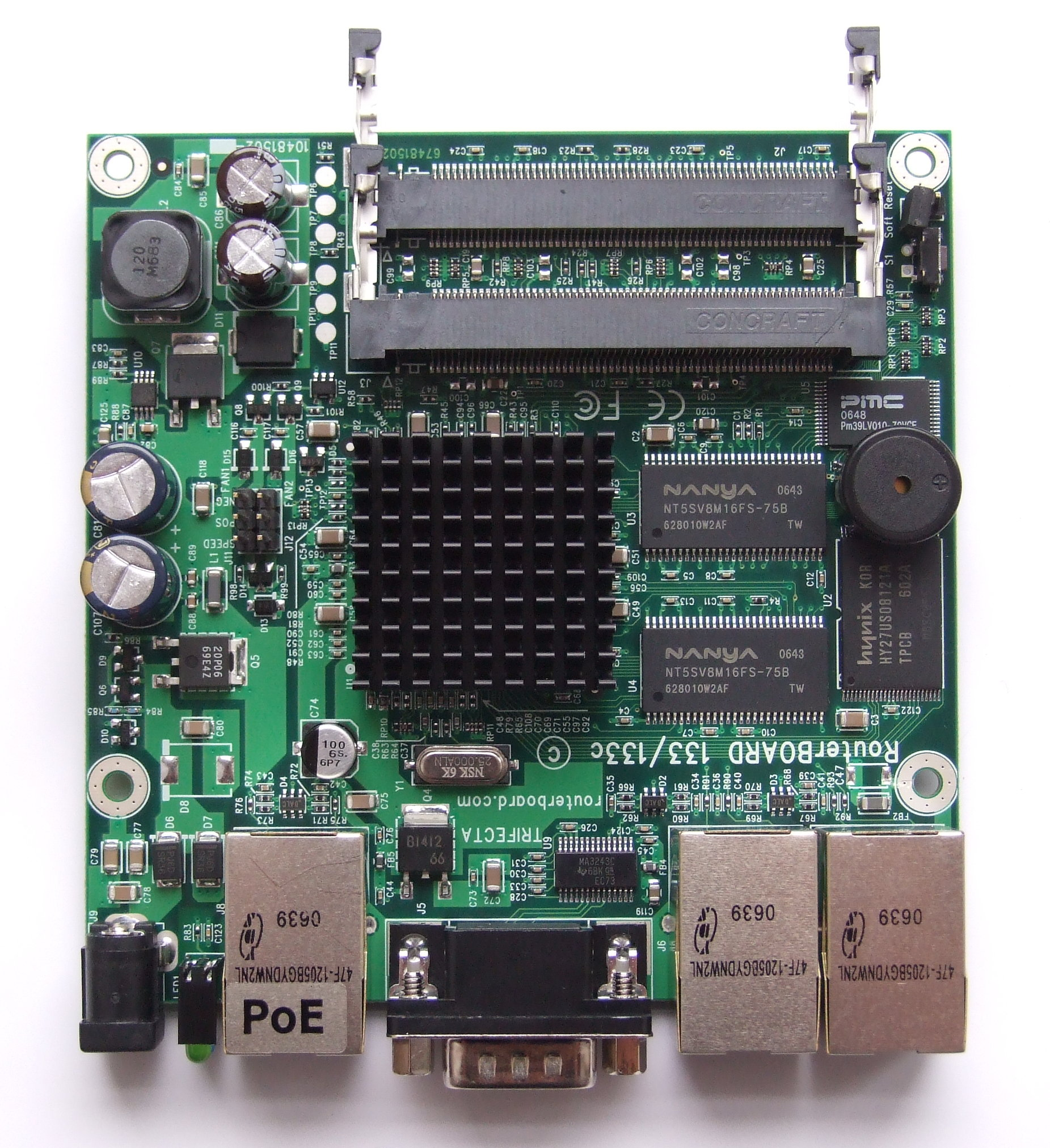 RouterBoard 133 front with two miniPCI card slots